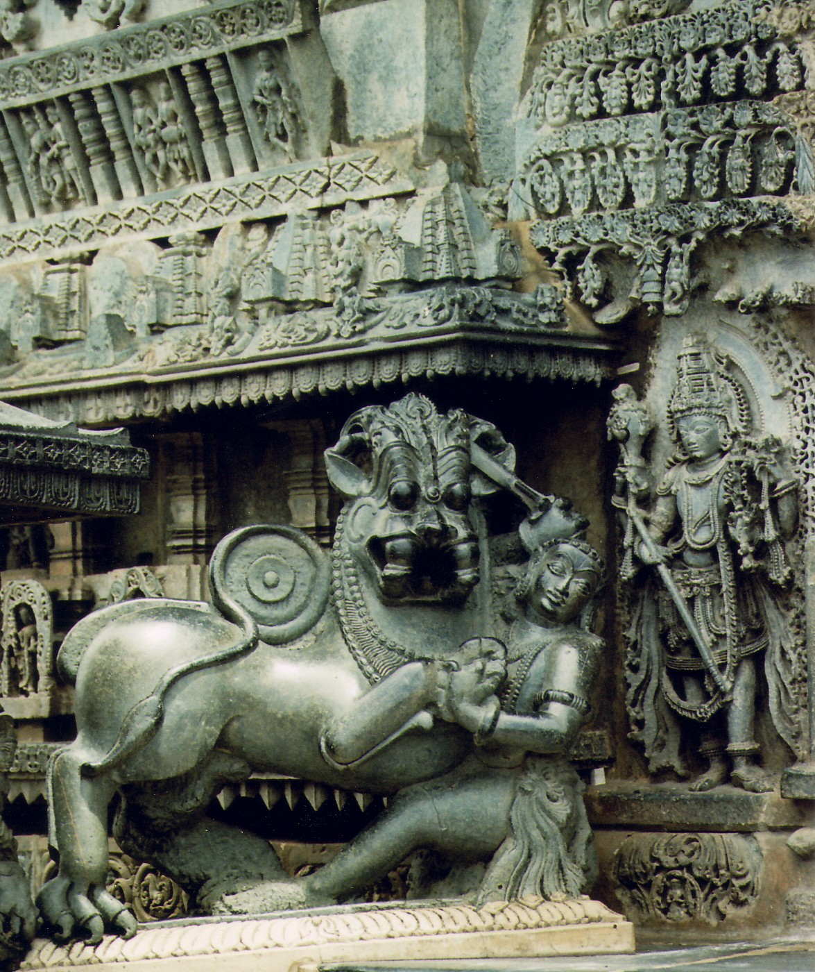 The Hoysala emblem photograph was taken at the Chennakeshava temple in Belur, Karnataka, India